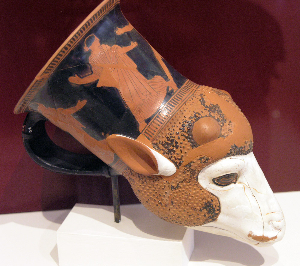 Man pursuing a woman. Red-figure ram rhyton by the Villa Giulia Painter, ca. 460-450 BC. From Anavyssos in Attica. National Archaeological Museum in Athens, 15880.